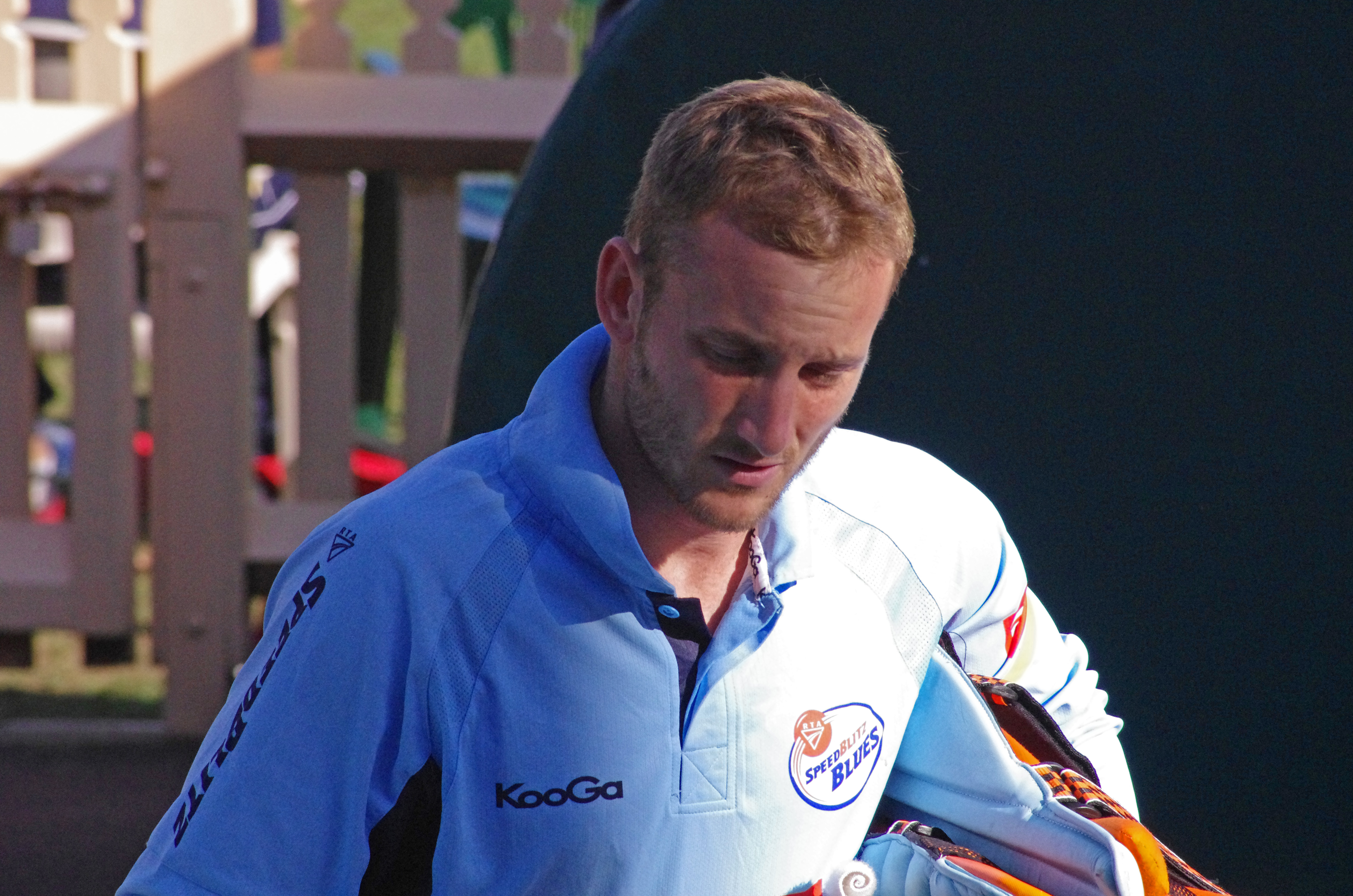 Australian cricketer Peter Nevill